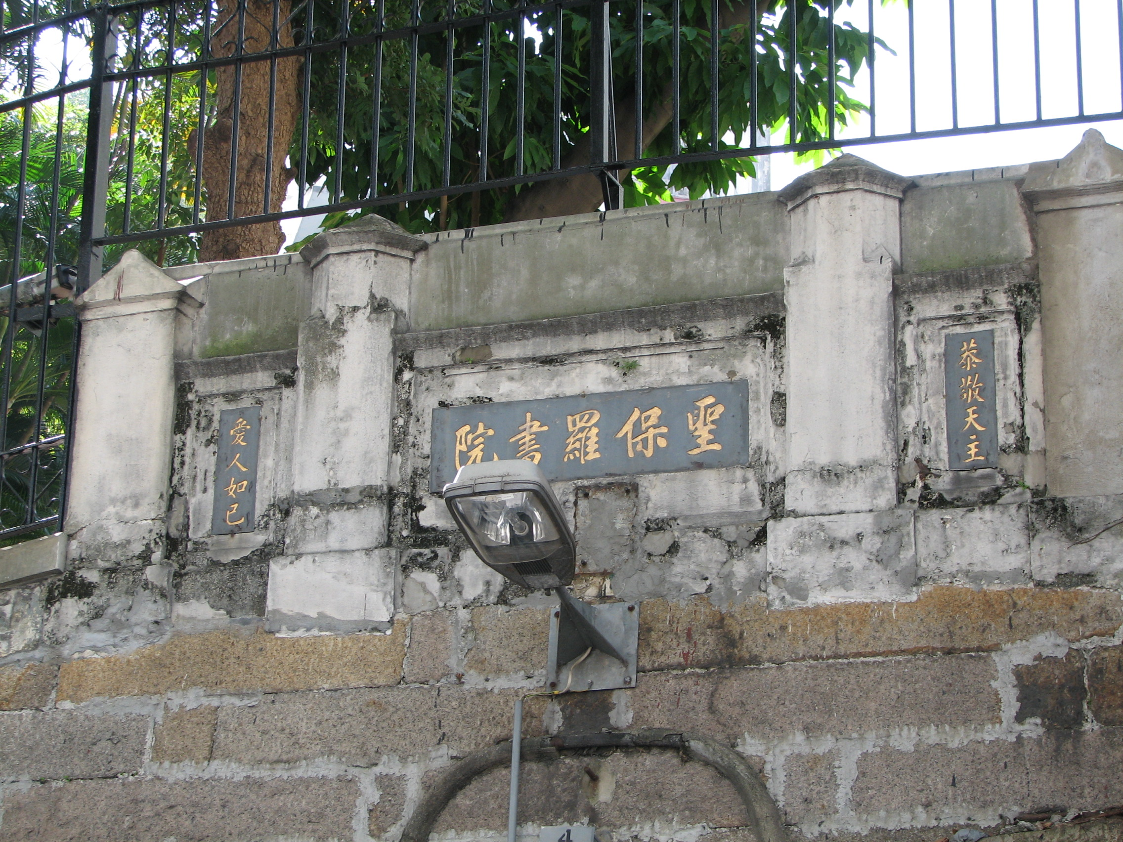 The old motto of St. Paul's College, Hong Kong, taken outside the old college campus at Lower Albert Road, Central.